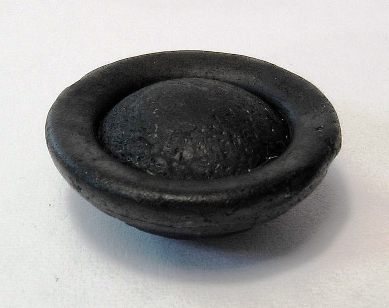 Australite, flanged button, back side. The specimen has a diameter of 20 mm and weighs 3.5g.